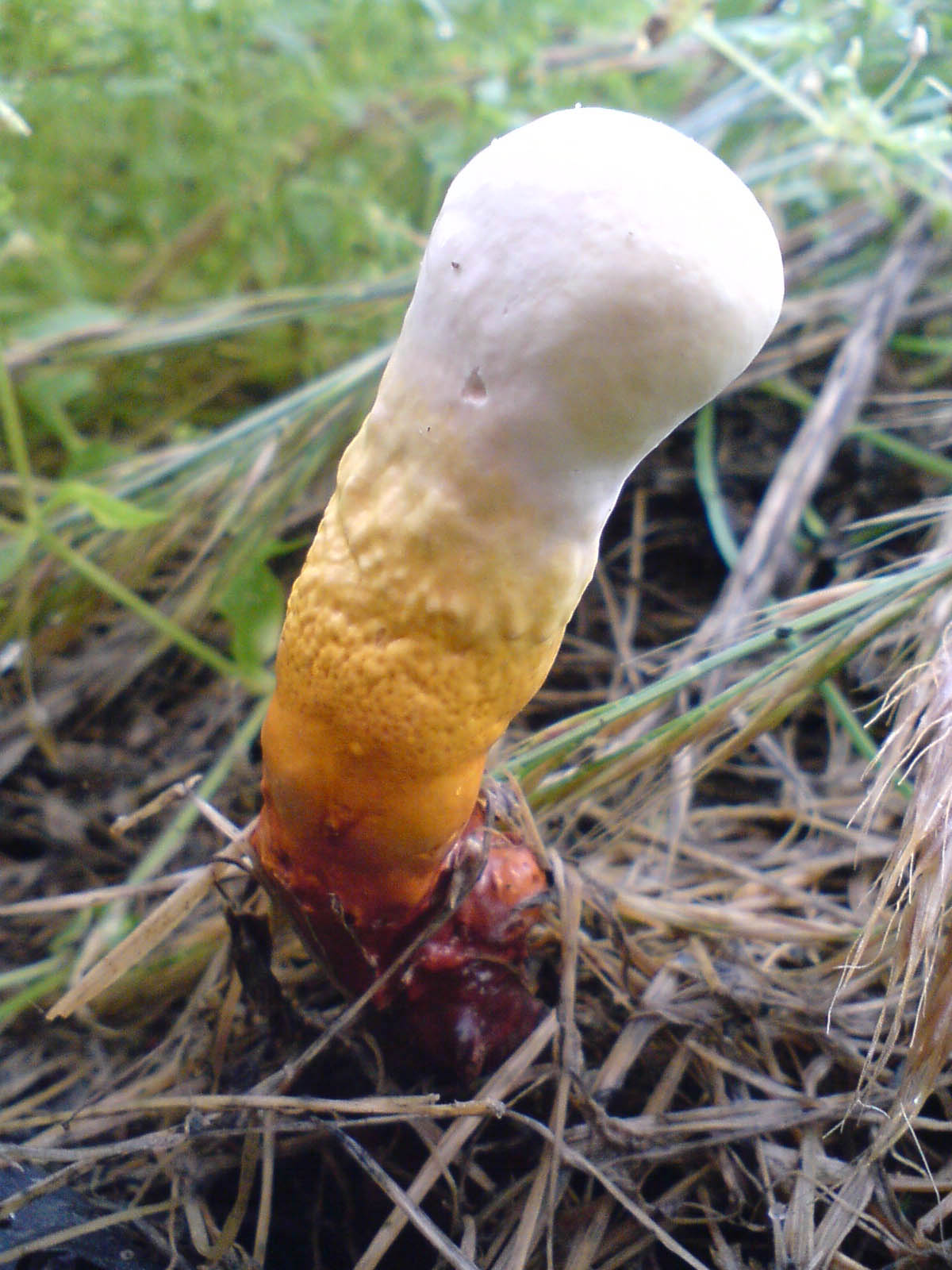 Lingzhi mushroom